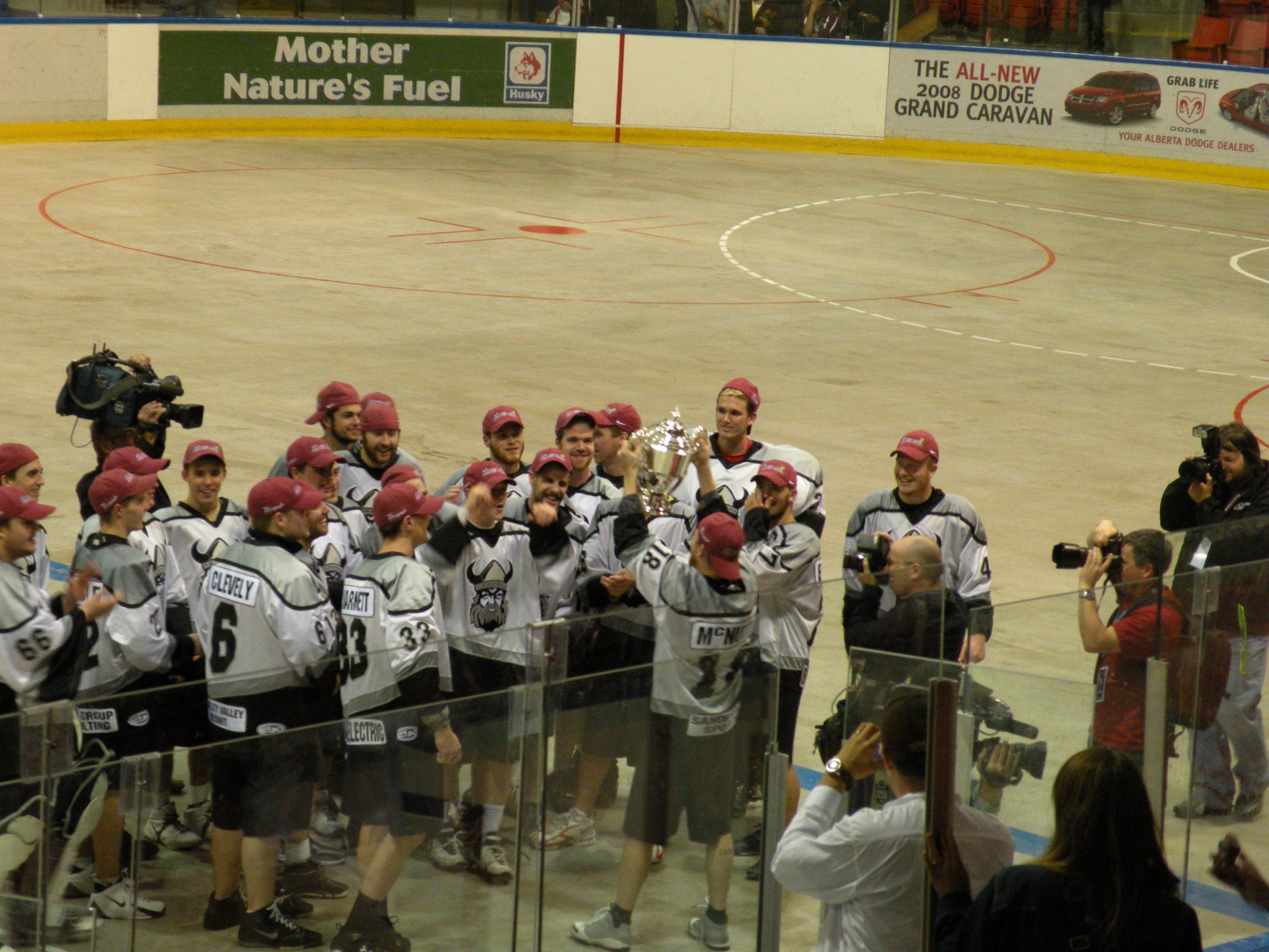 The Orangeville Northmen celebrate their Minto Cup championship following a 9-4 victory over the Victoria Shamrocks, August 28, 2008.